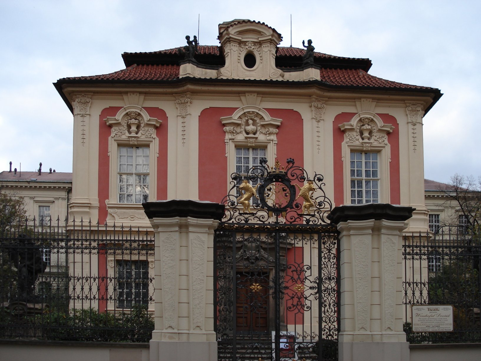 Summer pavillon of the Michna of Vacinov, so-called Villa Amerika. arch: Kilián Ignác Dientzenhofer.